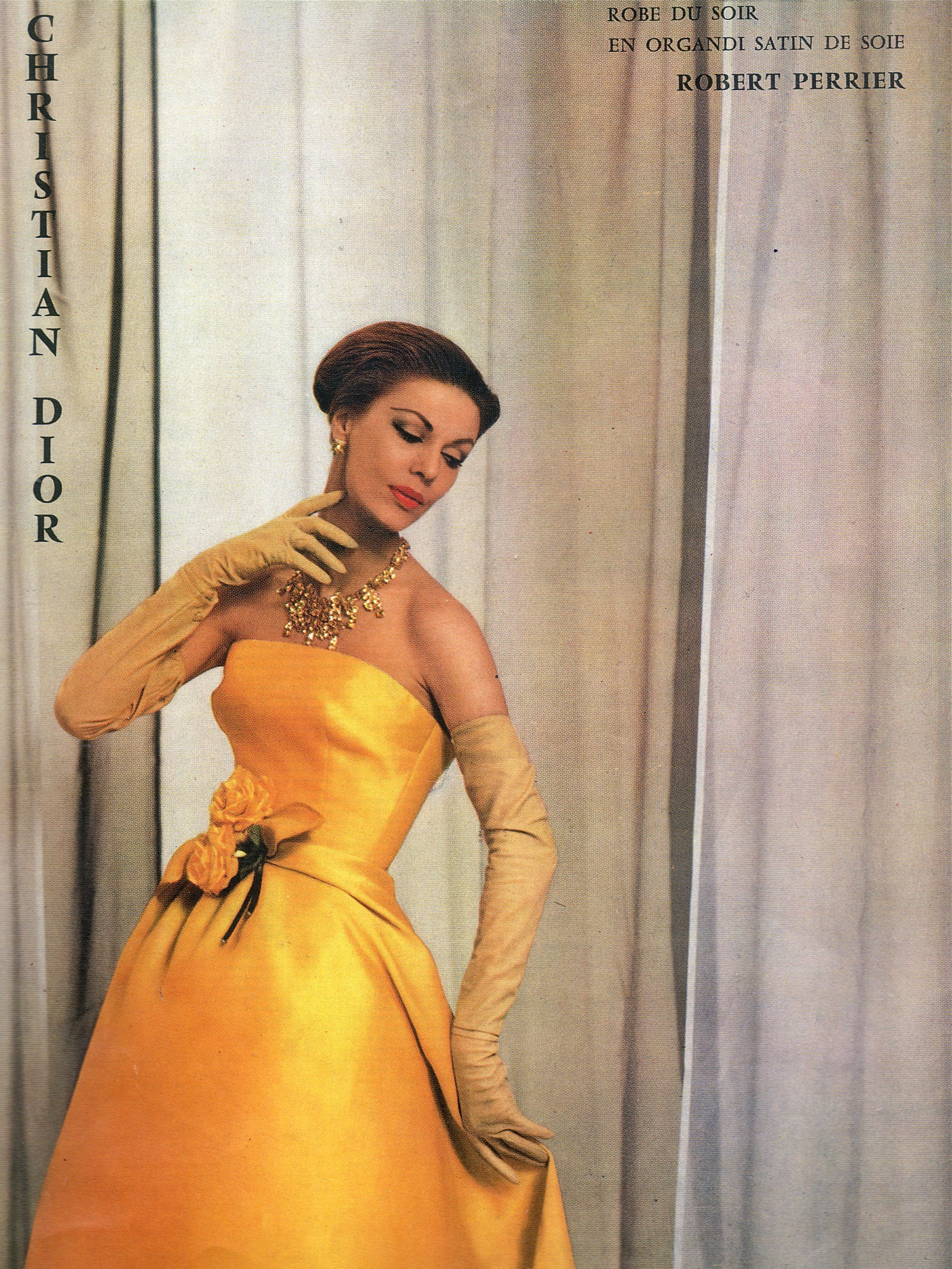 Publicity for evening Gown and train. Yellow organdy "silk satin" by Robert Perrier for Christian Dior.